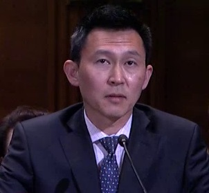 Kenneth K. Lee testifies on March 13, 2019, during a confirmation hearing for a nomination to be a United States Circuit Judge for the Ninth Circuit.